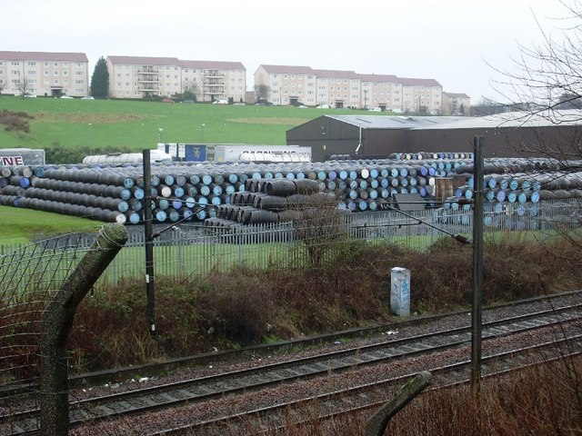 Barrels of whisky At the Edrington whisky bottling plant in Drumchapel. This site handles over 85 million bottles of Scotch whisky every year using 12 bottling lines. One of the lines is the fastest whisky bottling line in the world. It can fill, label and package 10 bottles of Famous Grouse or Cutty Sark whisky every second.